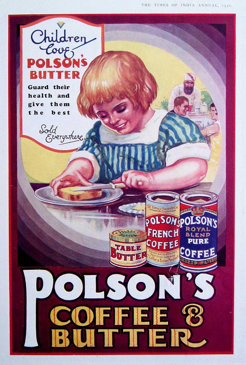 From Times of India Annual, 1930.